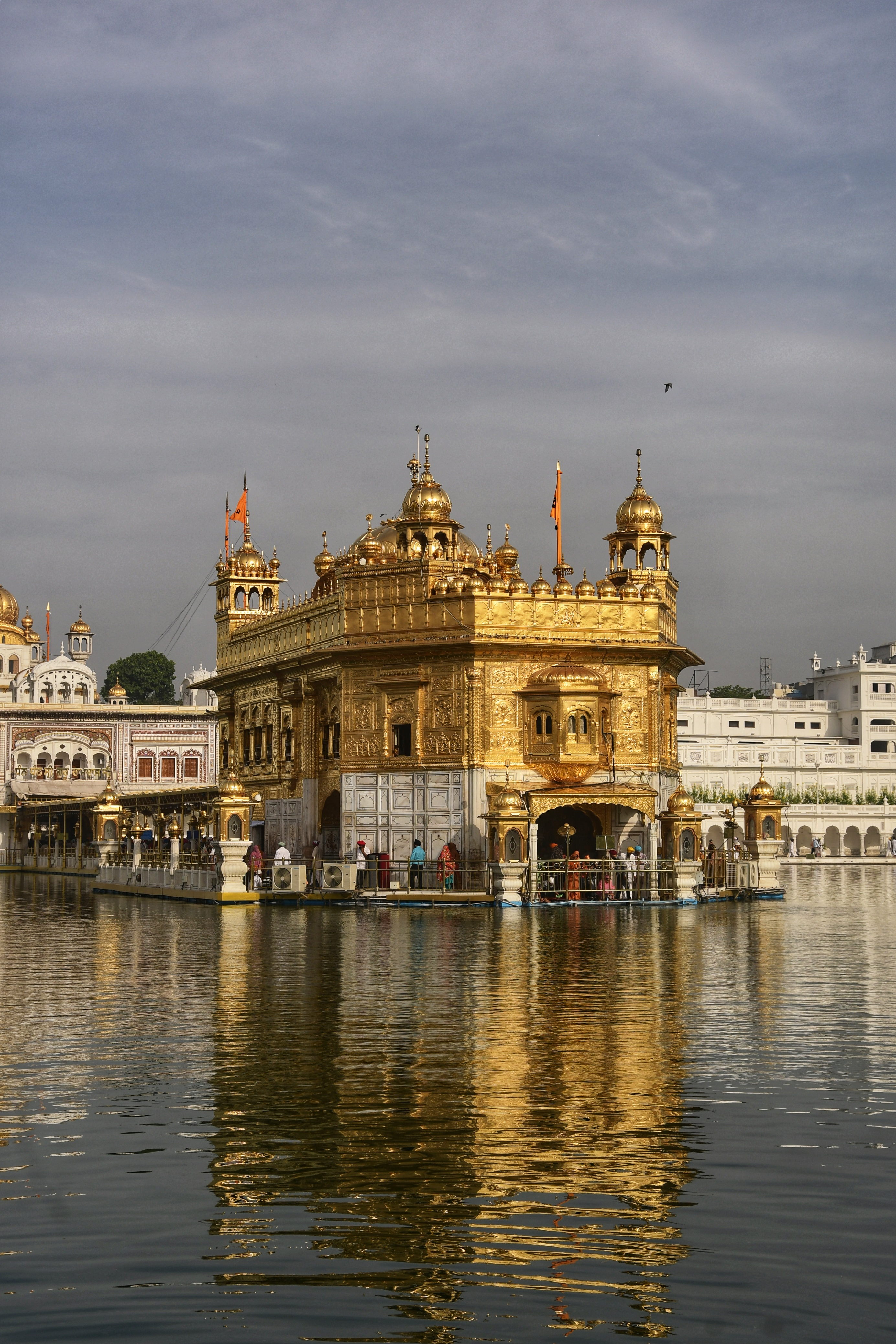 Golden Temple is also known as Harmandir Sahib